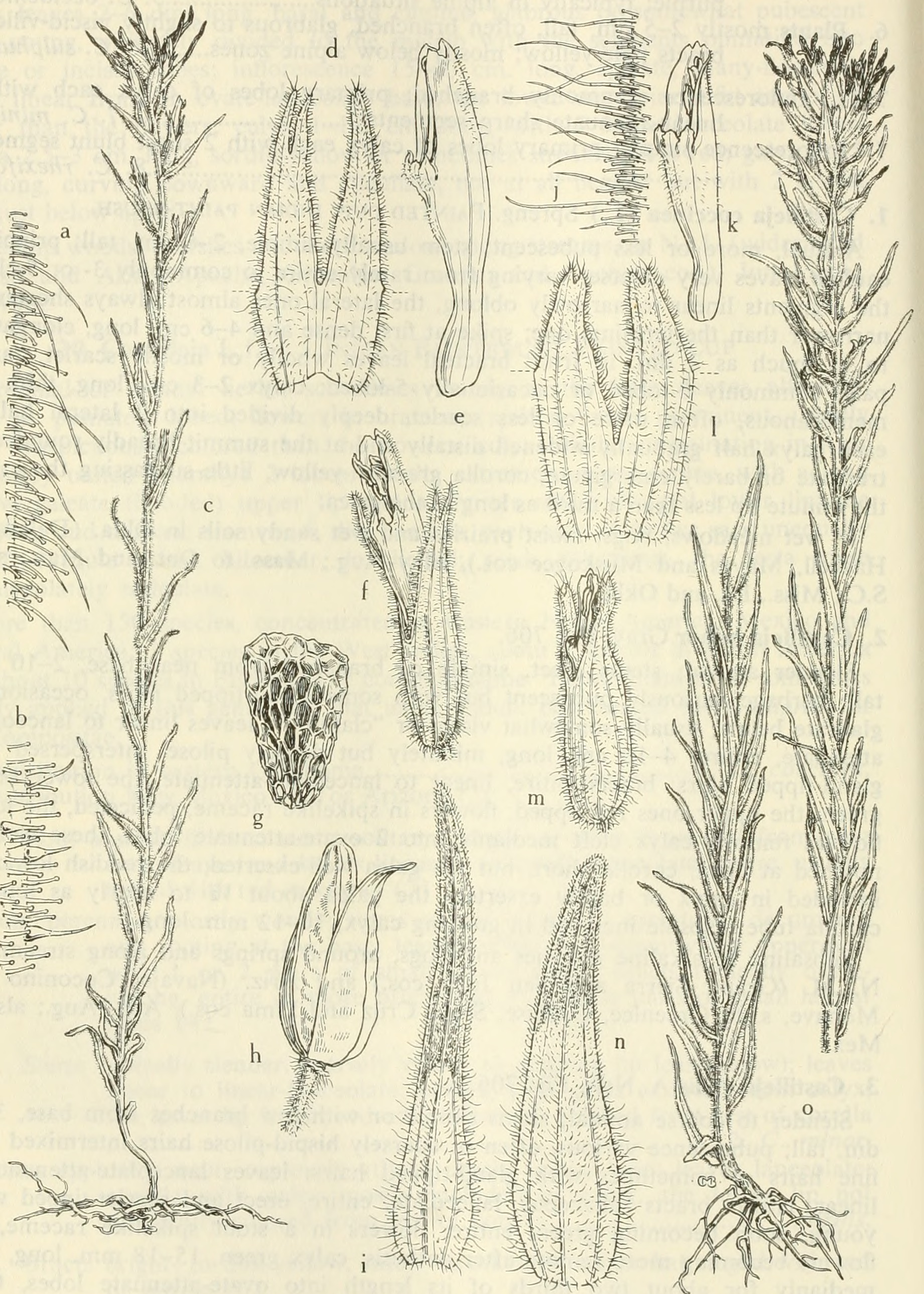 Title: Aquatic and wetland plants of southwestern United States Year: 1972 (1970s) Authors: Correll, Donovan Stewart, 1908-; Correll, Helen B Subjects: Aquatic plants -- Southwestern States; Wetland plants -- Southwestern States Publisher: [Washington Environmental Protection Agency; [For sale by the Supt. of Docs. , U. S. Govt. Print. Off. Text Appearing Before Image: ' Text Appearing After Image: Fig. 706: Castilleja. a-i, C. minor: a, stem hairs, x 6; b, calyx and bract hairs, x 8; c, habit, x %; d, calyx, spread out, the cut tube extending from the base to the dotted lines, x 2; e, corolla, side view, x 2; f, flower, x V/2; g, seed, x 12; h, capsule, x 2; i, bract, x 2. j-o, C. exilis: j, stem hairs, x 4; k, corolla, x 2; I, calyx, spread open, the cut tube extending from the base to the dotted lines, x 2; m, flower, x 1%; n, bract, x 2; o, habit, x %. (From Mason, Fig. 312).